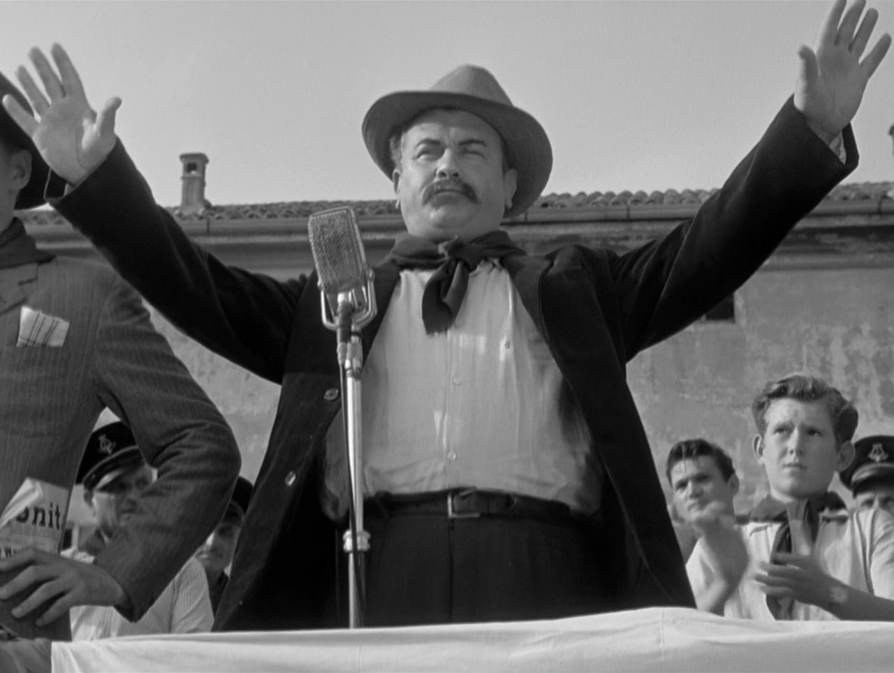 Gino Cervi as Peppone (1952)